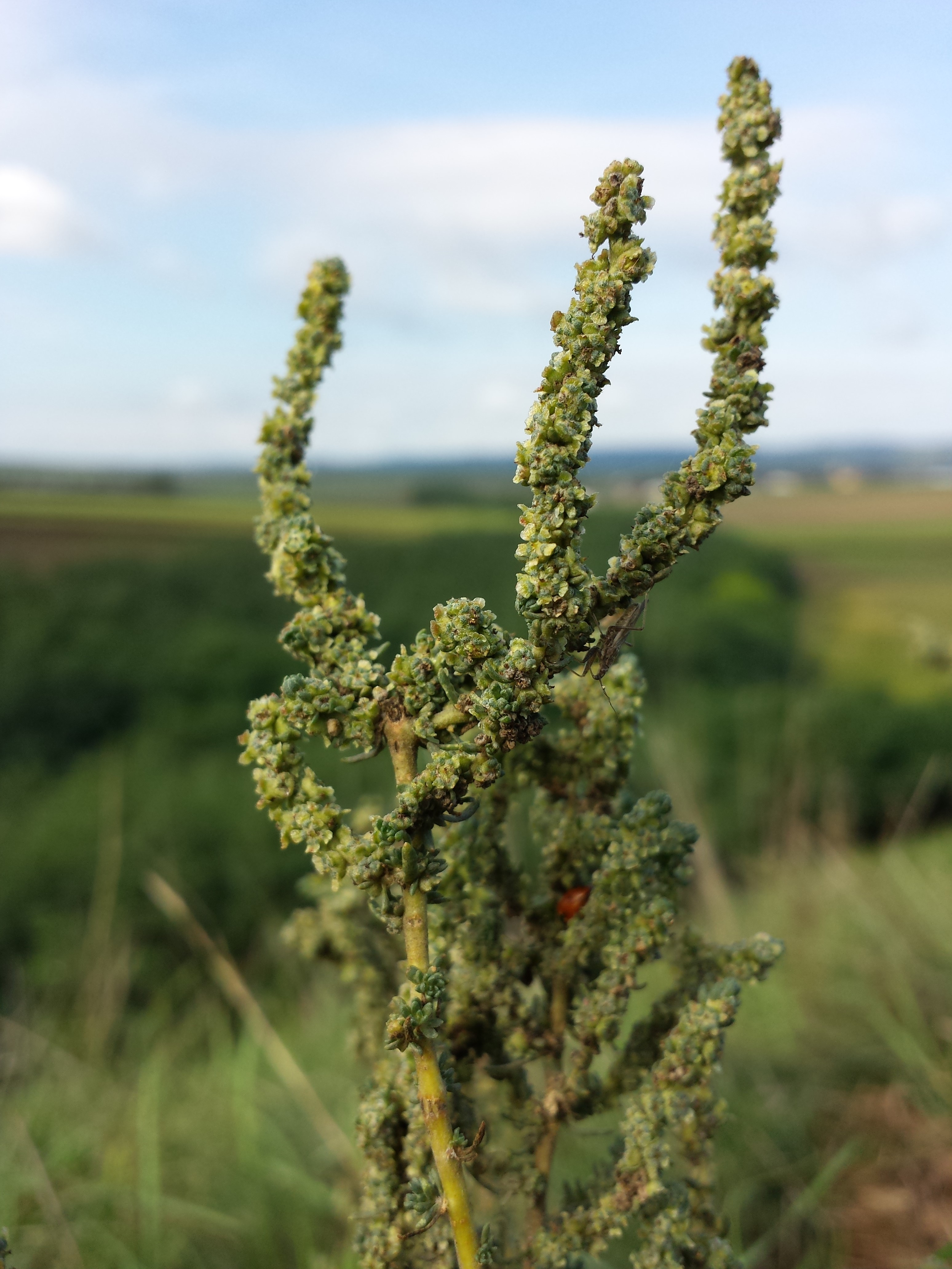 Florescence Taxon: Bassia prostrata (sensu Fischer et al. EfÖLS 2008 ISBN 978-3-85474-187-9) Location: Gupferter Berg (former motte) near Unternalb, district Hollabrunn, Lower Austria - ca. 250 m a.s.l. Habitat: dry grassland